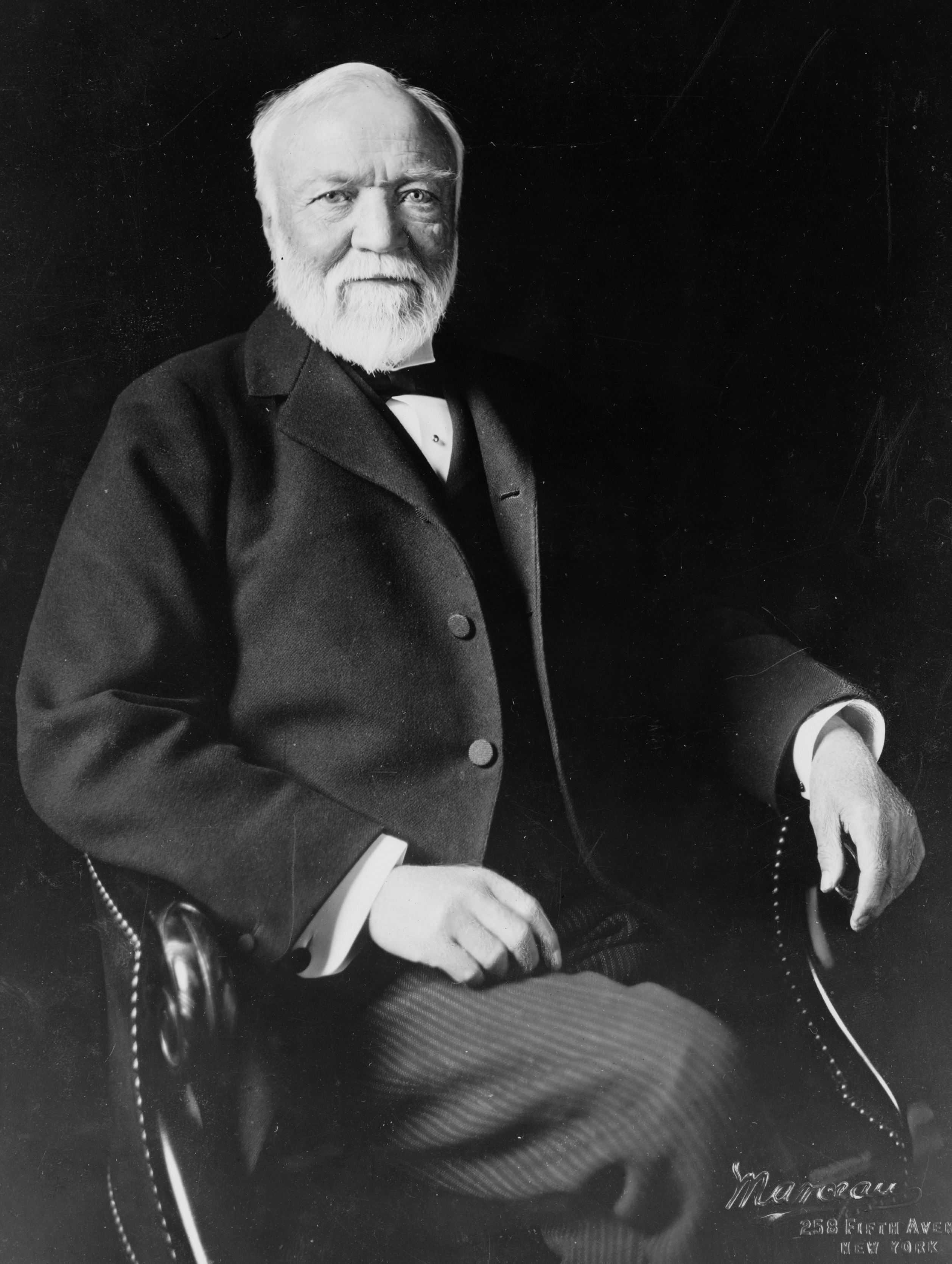 Andrew Carnegie, American businessman and philanthropist.